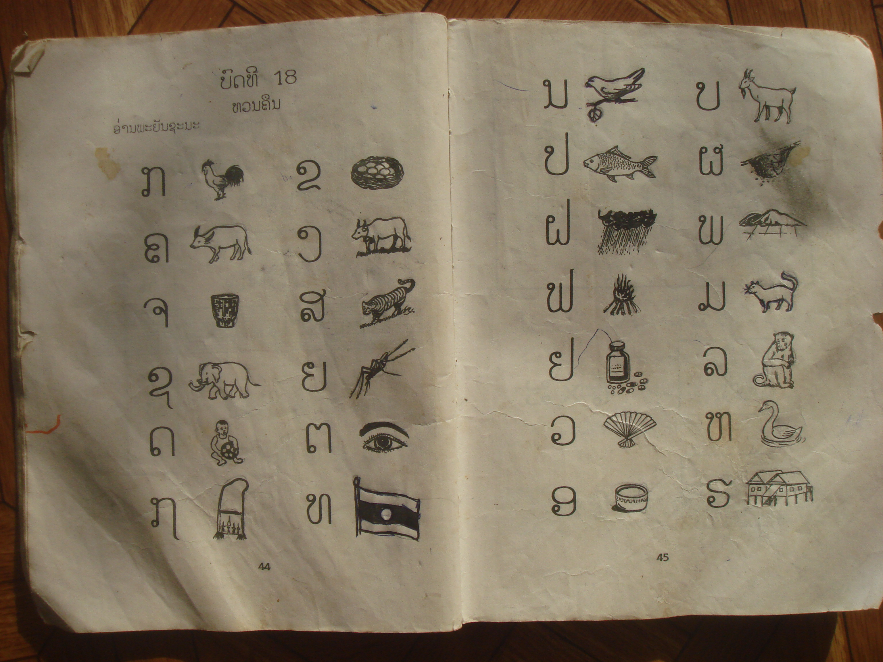 Lao-language consonants tought in a local schoolbook of 2005 illustrated with familiar pictures